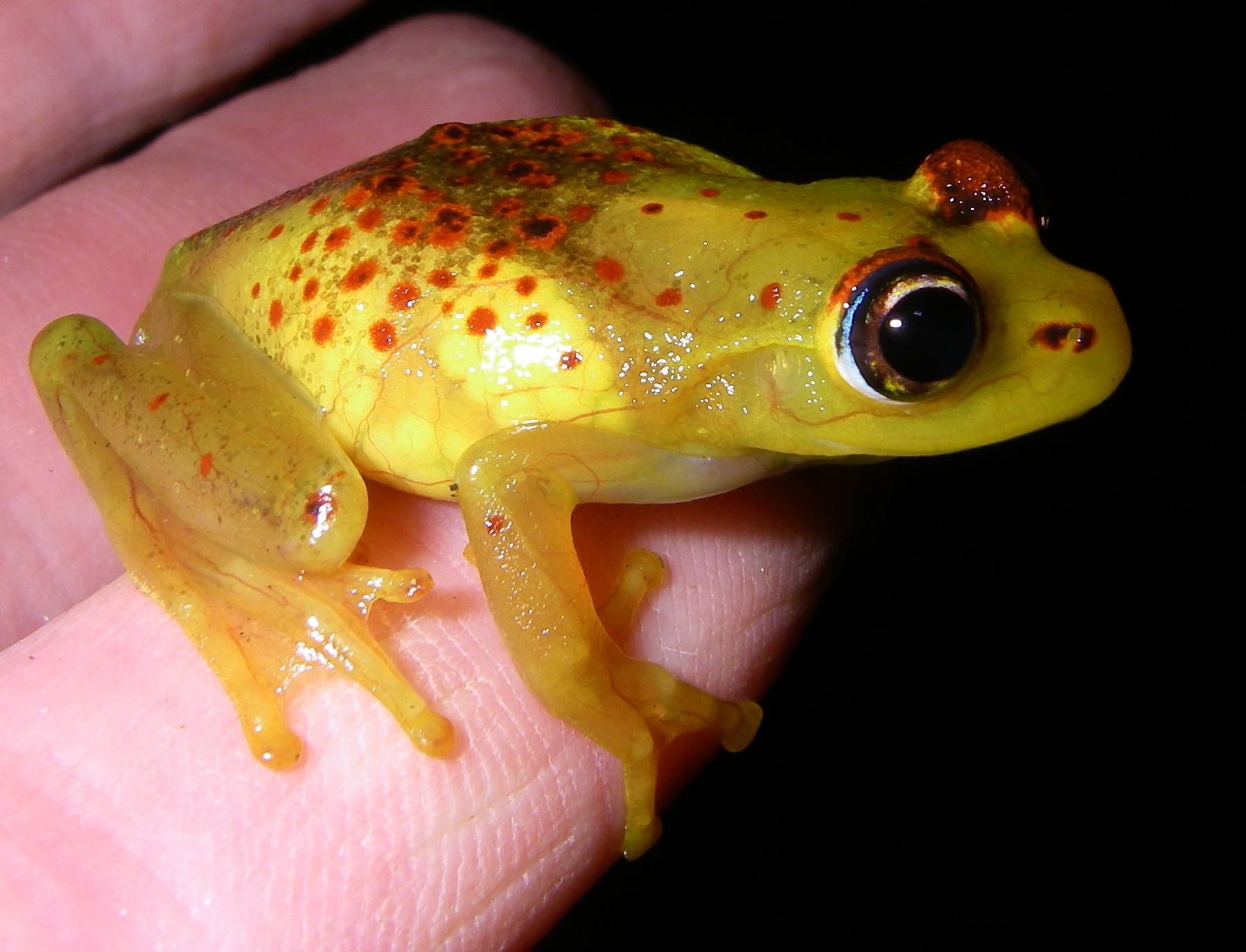 Female Boophis bottae (Mantellidae), eggs are shining through; picture taken close to Ambatolahy, Ranomafana National Park, Madagascar